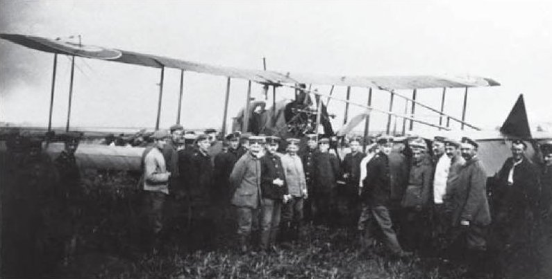 WWI plane piloted by Lieutenant Tom Rees and Second Lieutenant Lionel B. F. Morris. First plane shot down by "Red Baron".